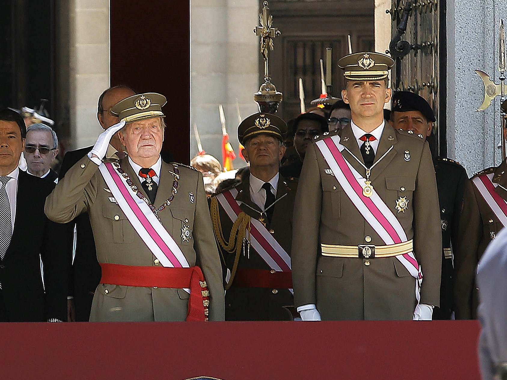 Juan Carlos I y Felipe